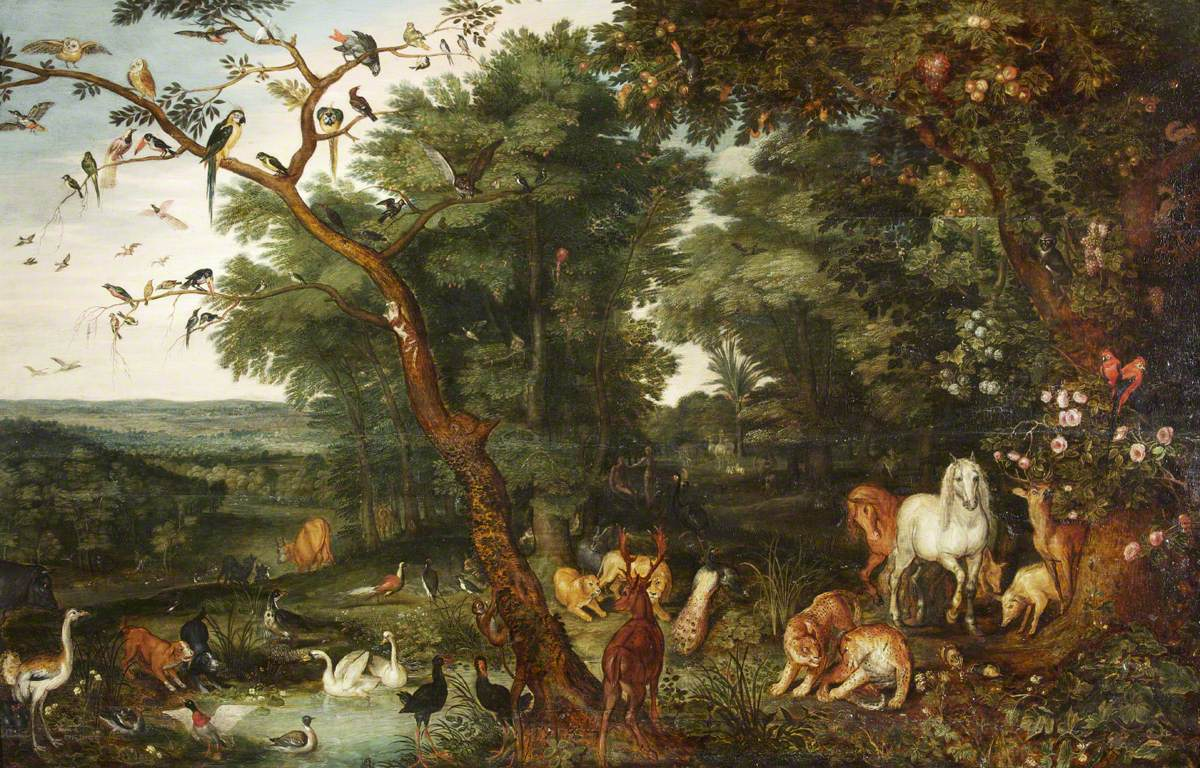 Bouttats the elder, Frederik; The Garden of Eden; National Trust, Stourhead. Óleo sobre tabla, 55 x 85,5 cm